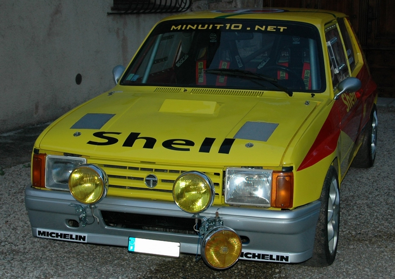 Samba Rallye Groupe B